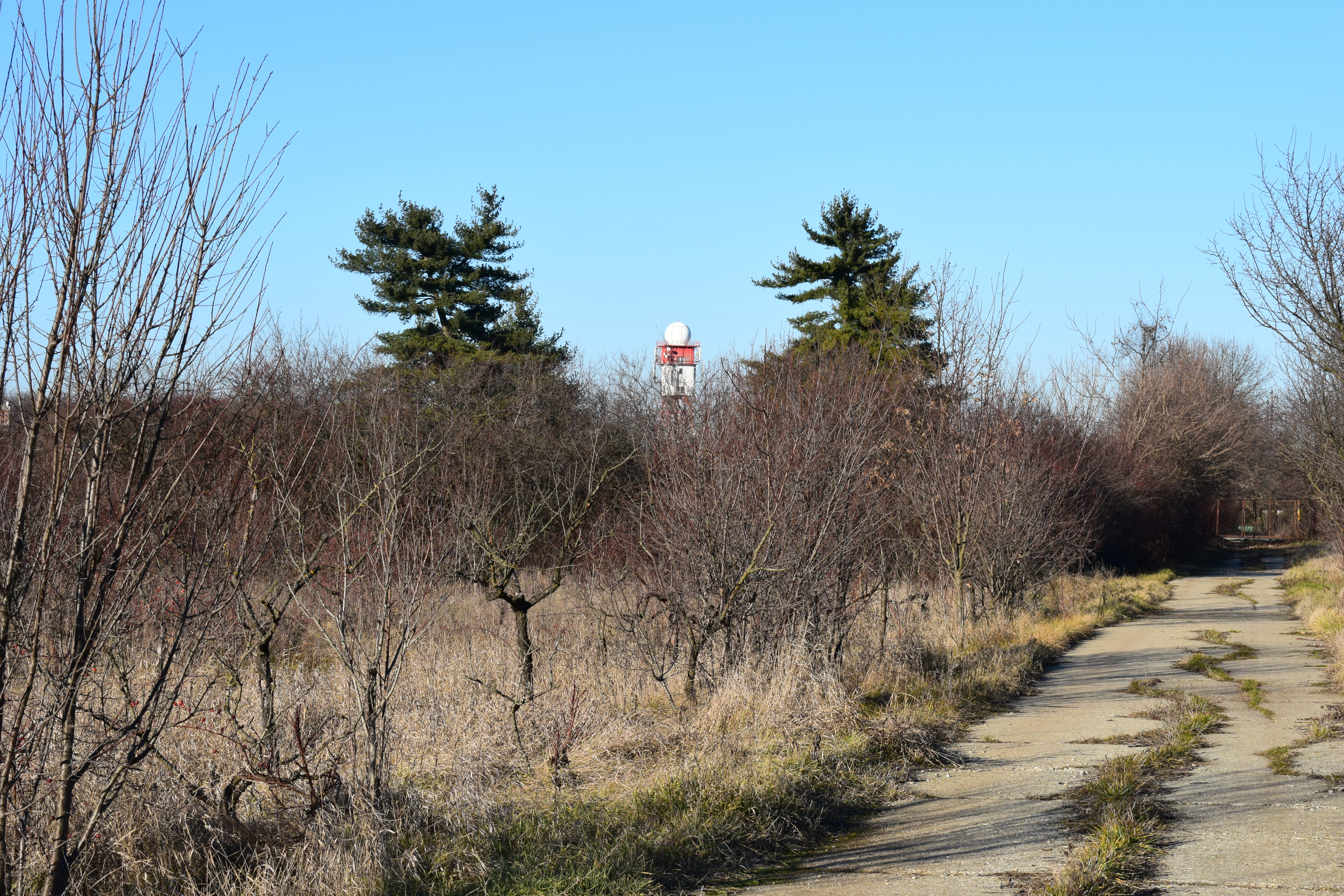 A view from the former Băneasa Royal Farm in Băneasa neighborhood, Bucharest, west side of DN1